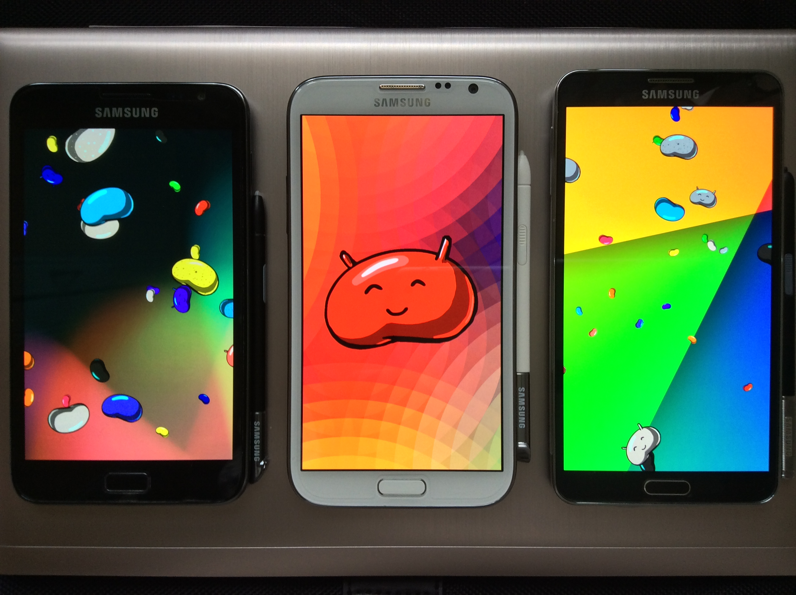 Samsung Galaxy Note series - Taken with iPad Air